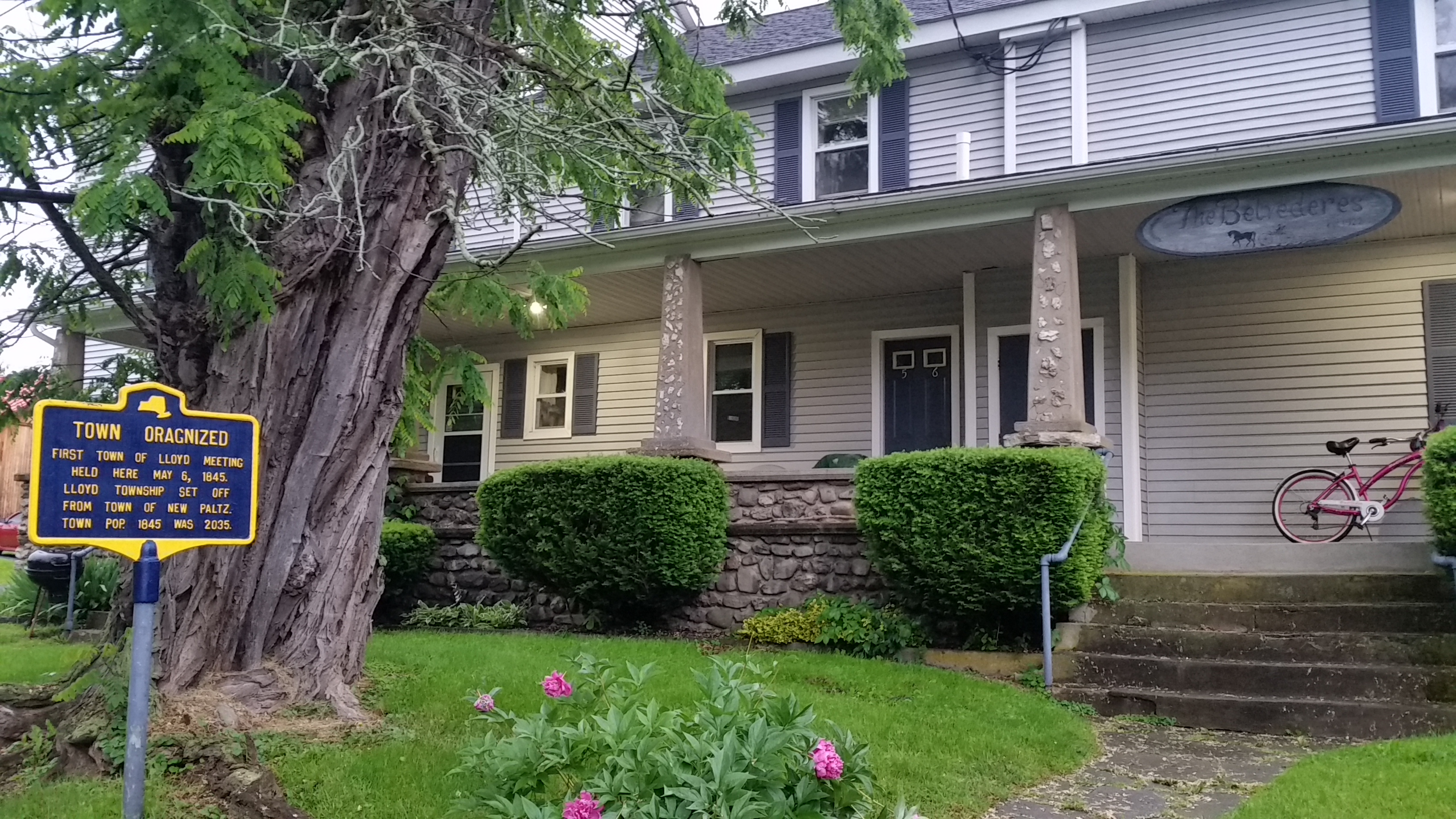 NY State historical marker for the building where the Town of Lloyd was organized, splitting from New Paltz